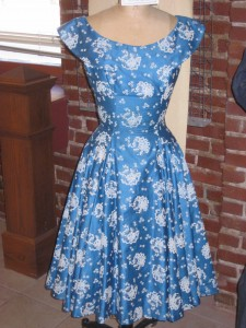 This blue dress was included in the KC Garment District Museum's 2012 Holiday Collection that featured dresses of velvet and chiffon and satin and coats/suits of velvet,silk and brocade from the 50's and 60's.